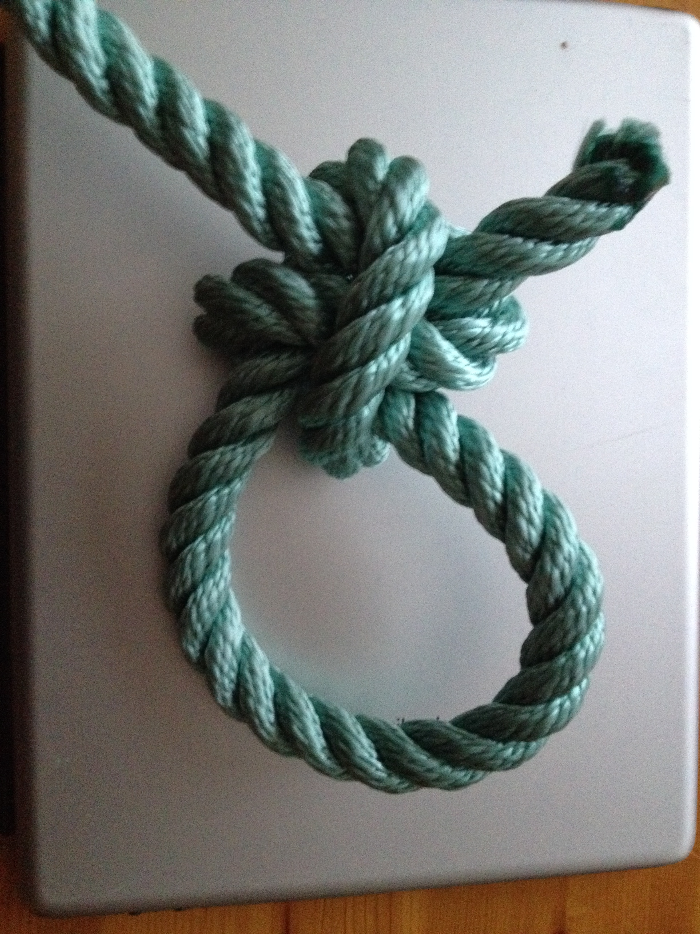 Friendship knot loop back view